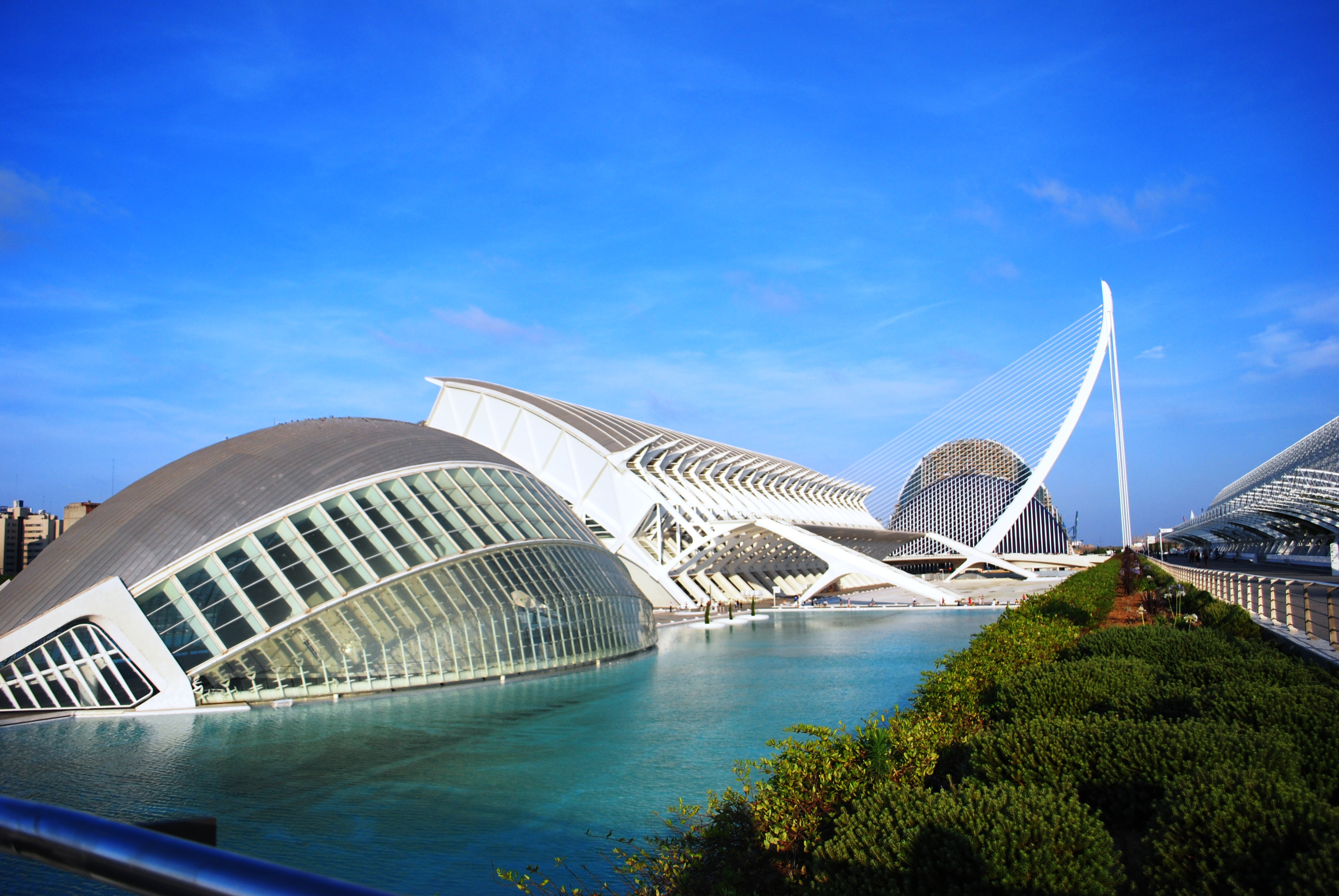 The City of Arts and Sciences, located just a bus hop away from the city center, a masterpiece of world renown architects, Valencia's very own Santiago Calatrava and Félix Candela.